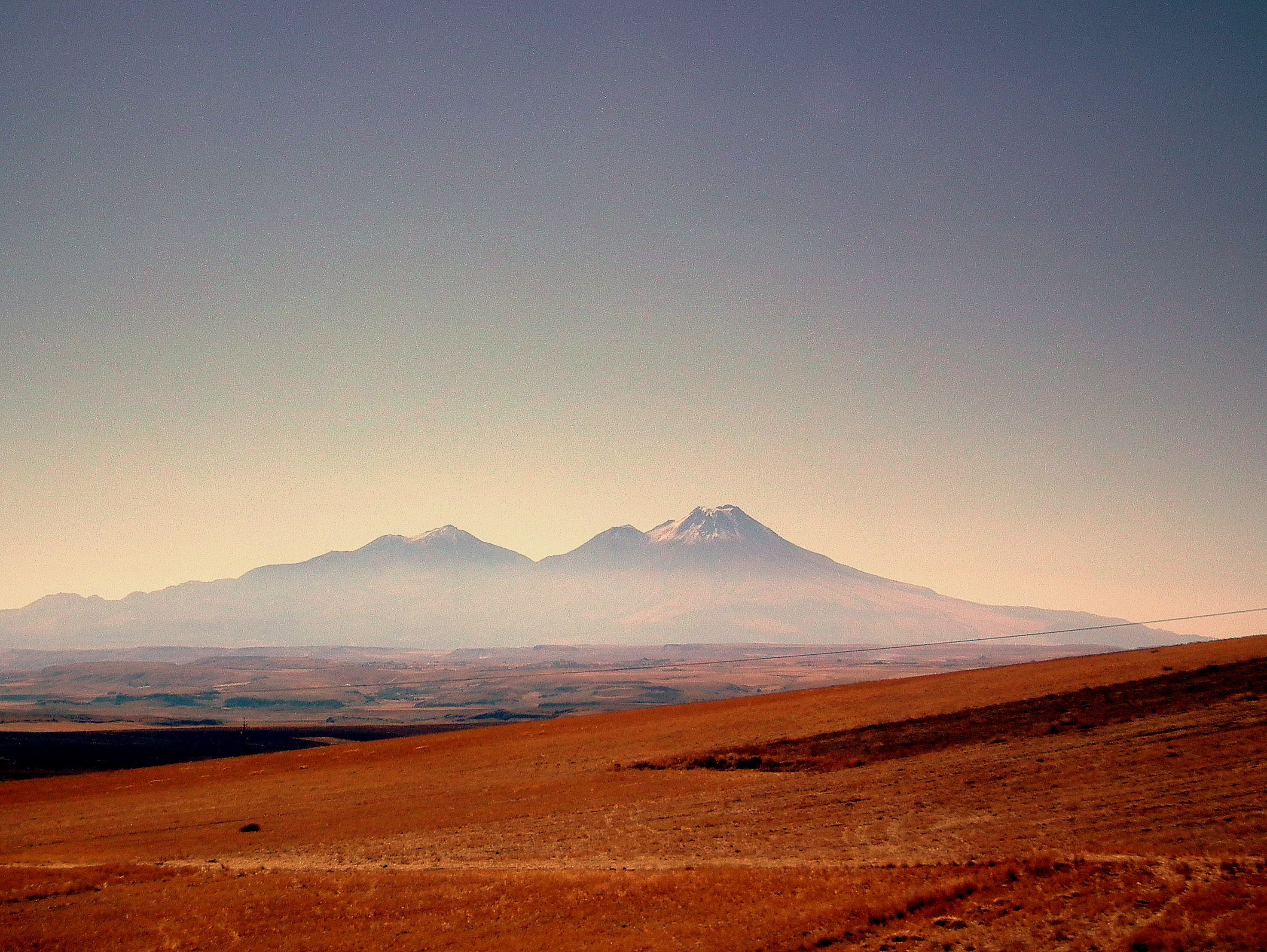 MT HASSAN DORMANT VOLCANO CAPPADOCIA CENTRAL TURKEY OCT 2011